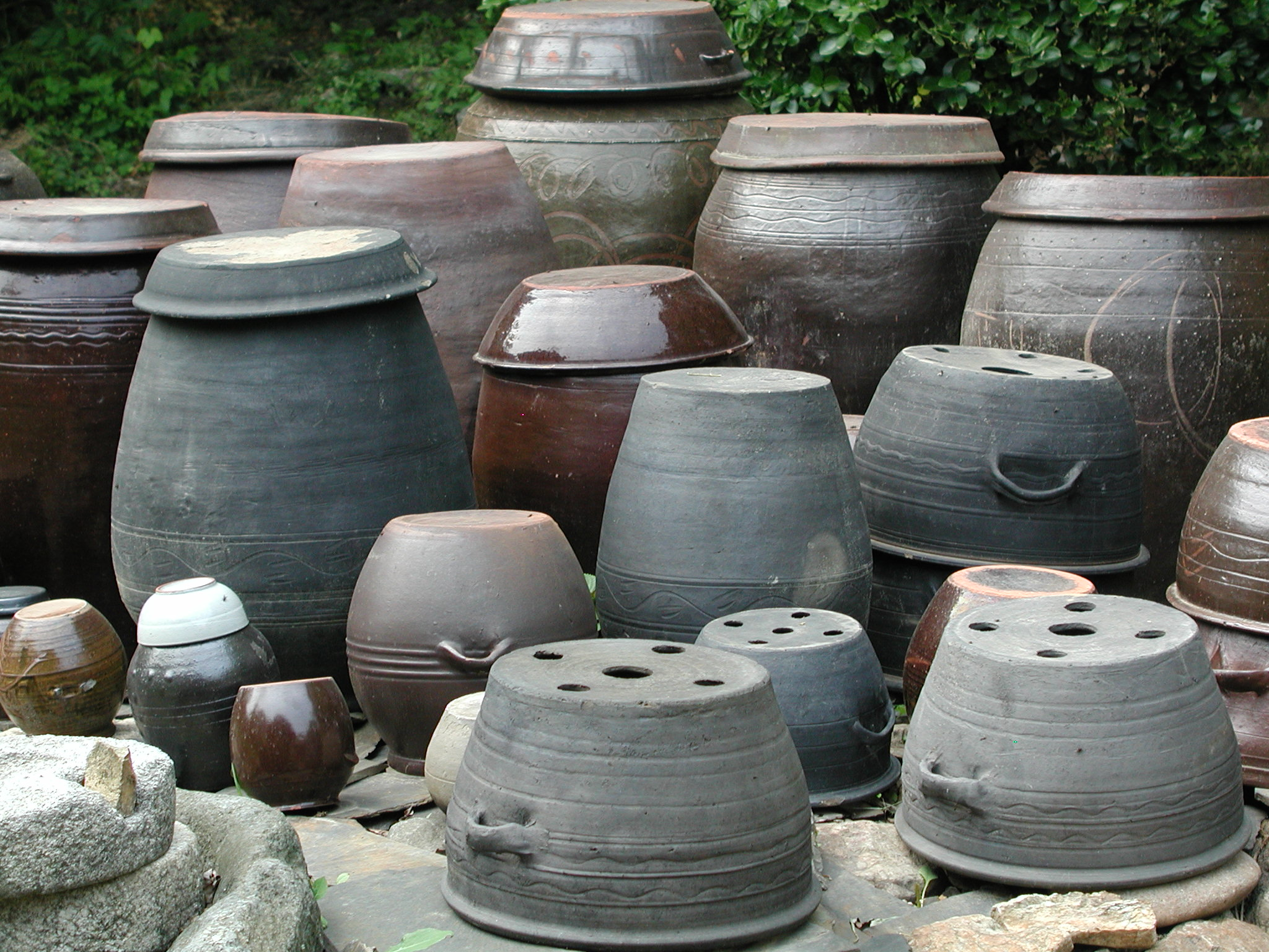 Pottery displayed at Hanok, Korean traditional house at Korean Folk Village (Minsokchon) in Yongin, Gyeonggi-do, Korea